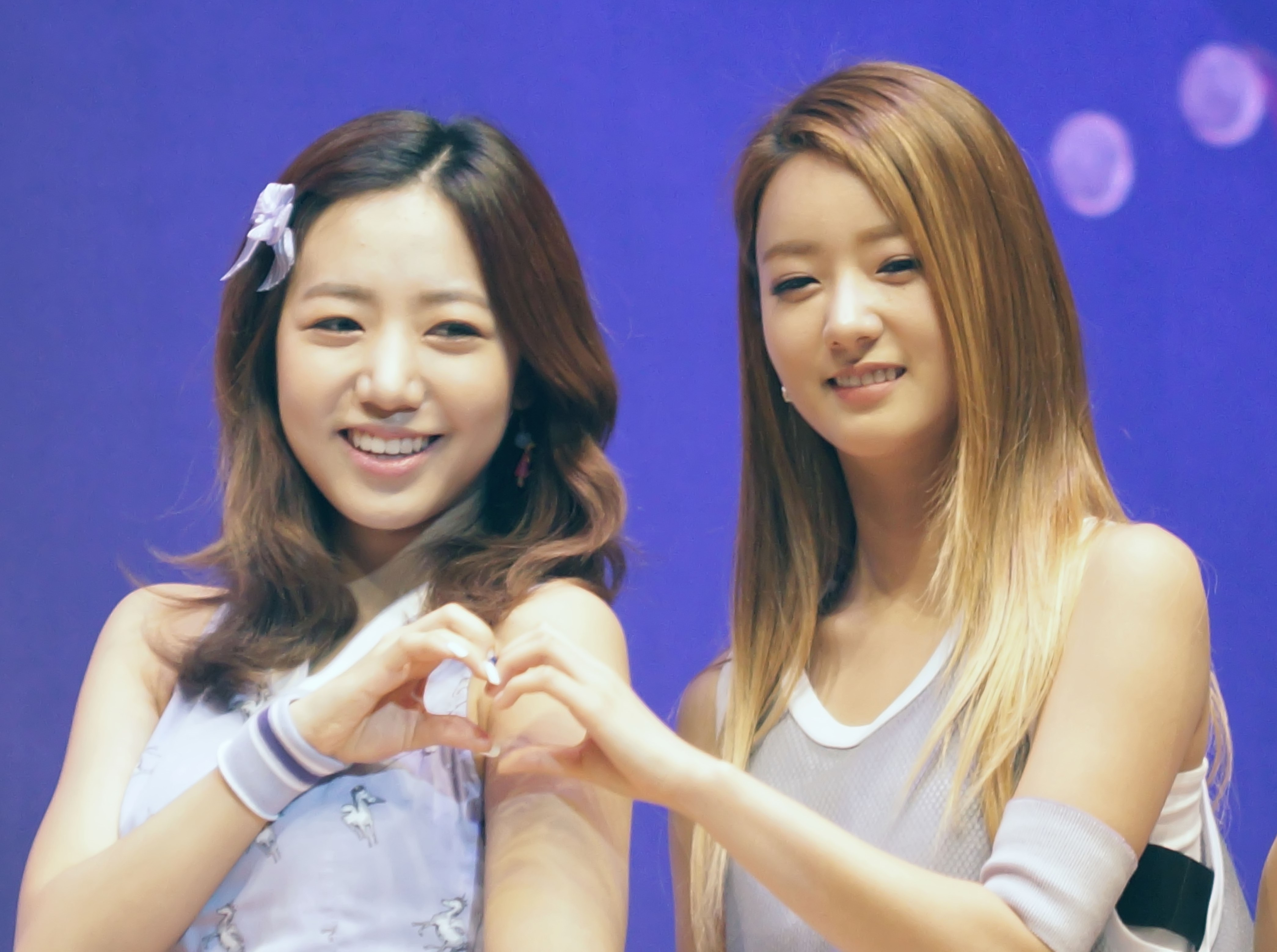 Kim Namjoo and Yoon Bomi at Sudden Attack Mini Concert, 29 June 2014